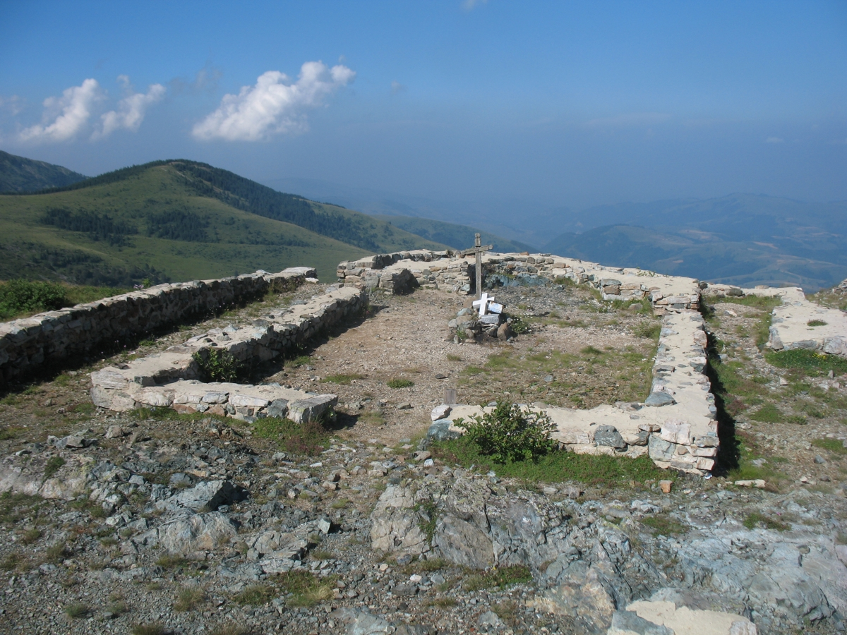 Bazilika on Nebeske stolice (Cellestial chairs) archaeological site below Pančićs peak on Kopaonik,Serbia.